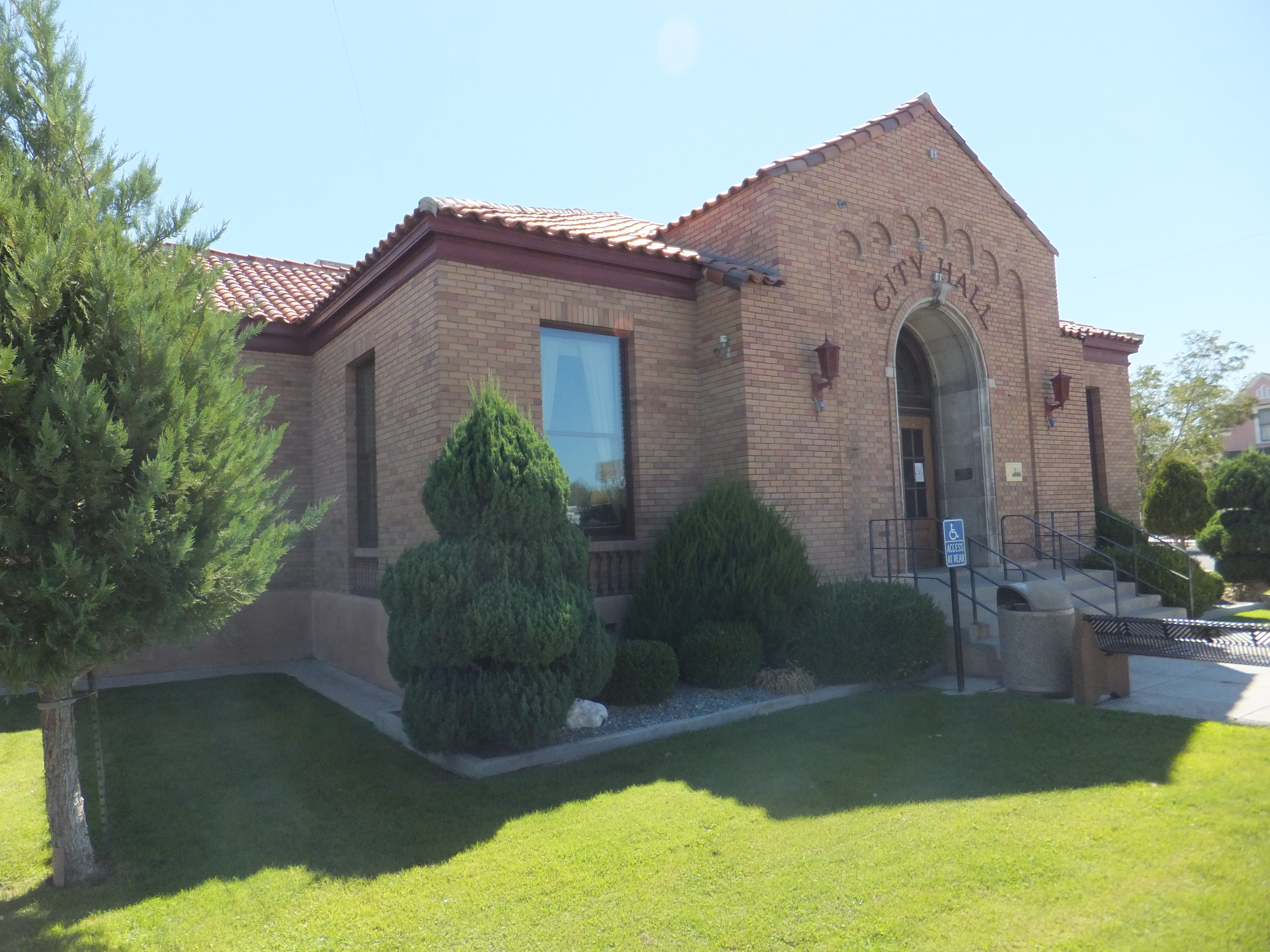 Fallon City Hall Architect Frederic DeLongchamps